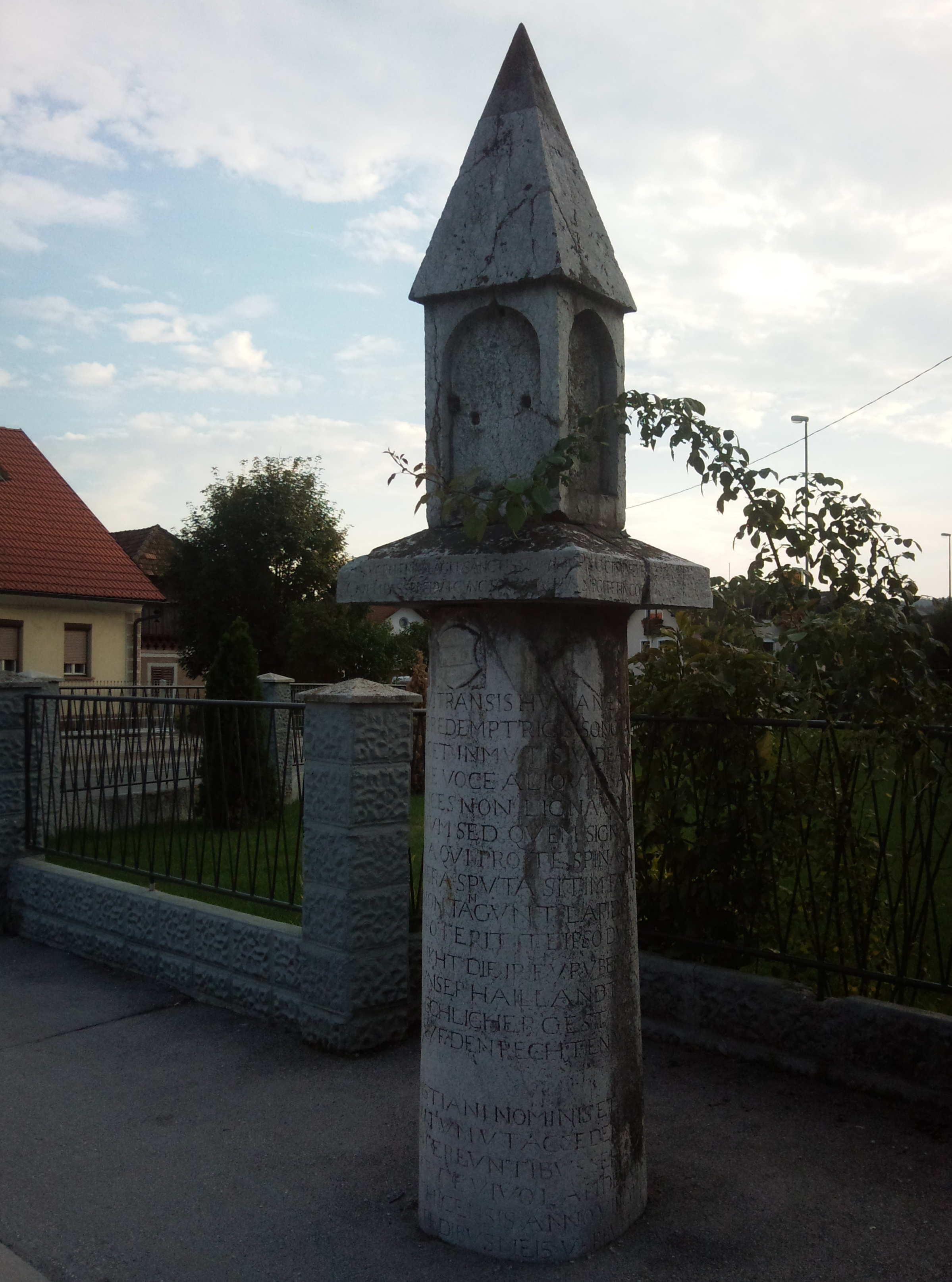 Anepigraphic roman milestone, in Ivančna Gorica, that was recarved in 1583 on the orders of Laurentius Rainer, the abbot of the Cistercian Abbey at nearby Stična.